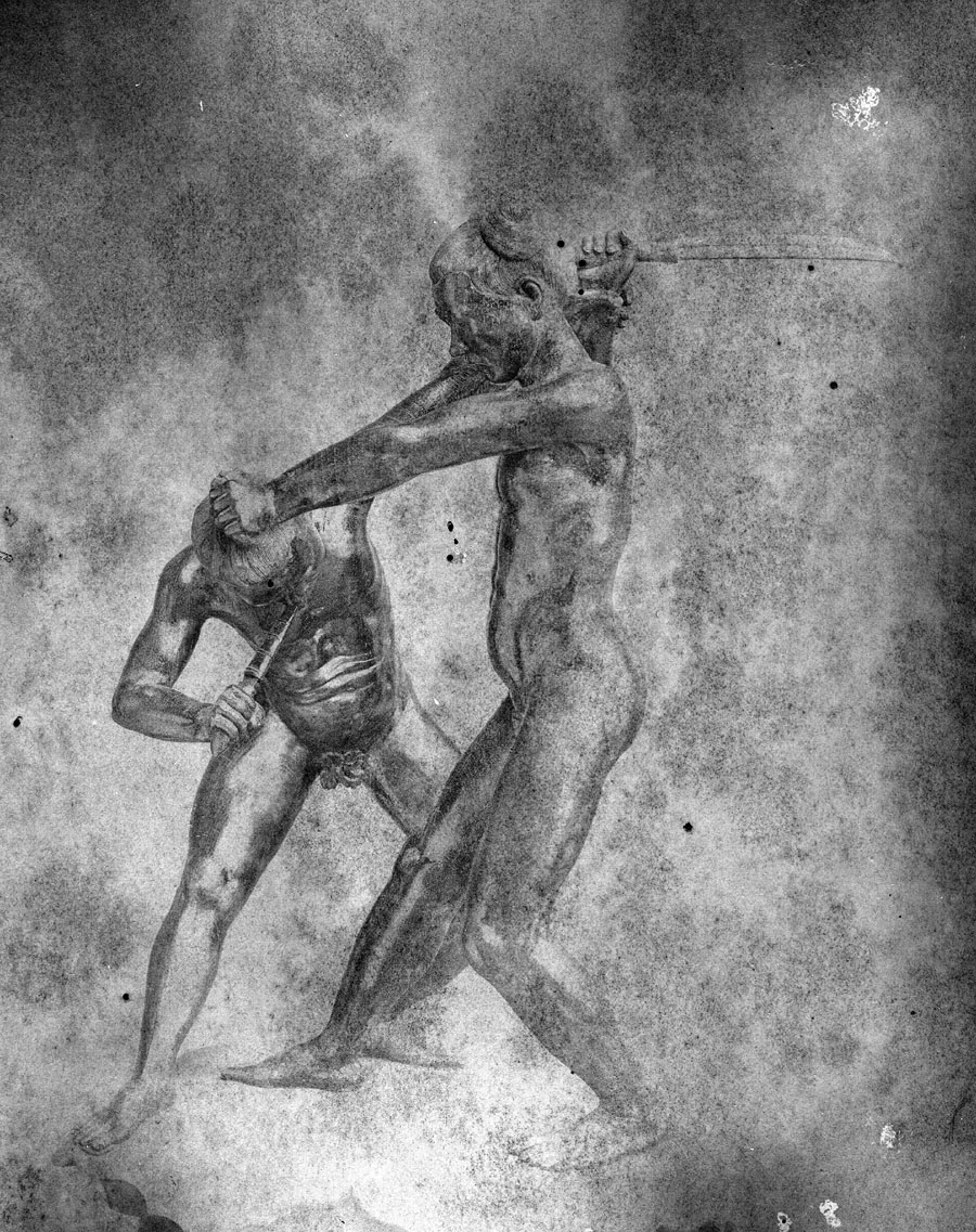 thaing1.jpg